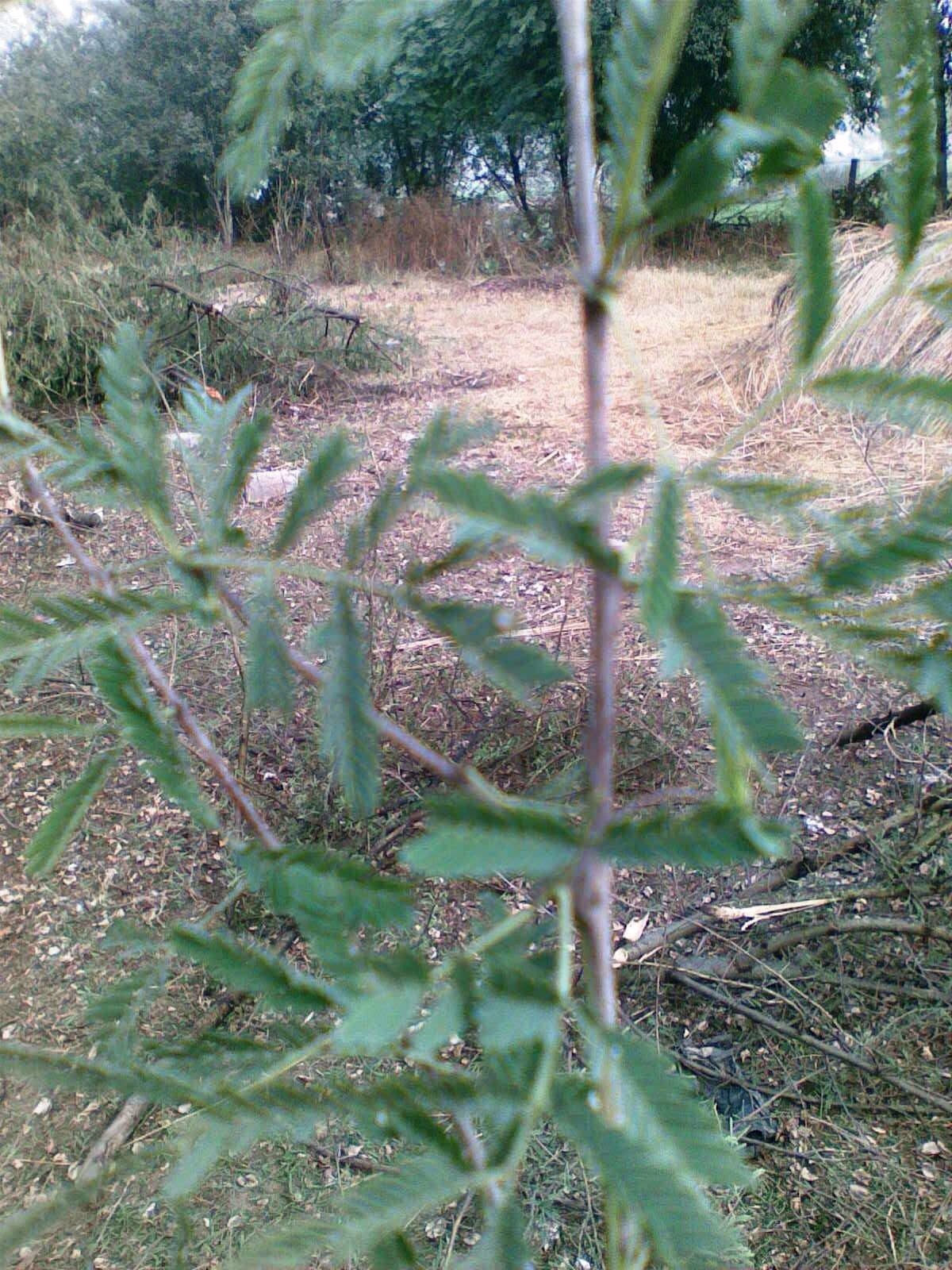 A view of Kikkar leaves on its branchਪੰਜਾਬੀ: ਕਿੱਕਰ ਦੇ ਪੱਤੇ ਆਪਣੀ ਟਹਿਣੀ ਤੇ ਦਰਸਾਏ ਹਨ